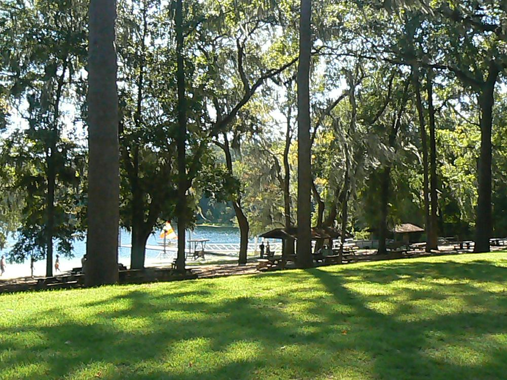 Alfred B Maclay Gardens State Park, Tallahassee FL, USA; Lake Hall in background